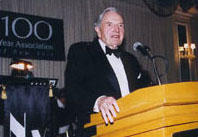 I, the Executive Director of this organization, grant permission to use this image on Wikipedia.